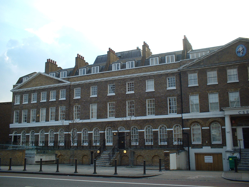 John Smith House, the former headquarters of the British Labour Party. Walworth Road, Southwark, London. Taken by C Ford, February 04.